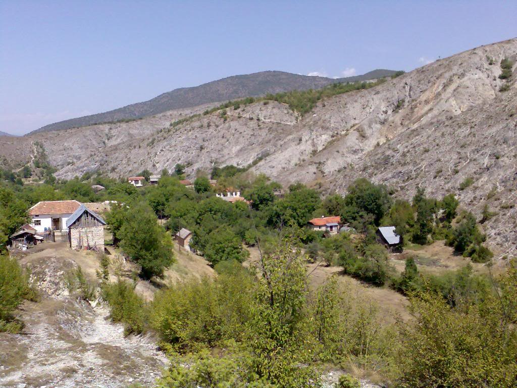 Village of Vir, Poreche region, Republic of Macedonia